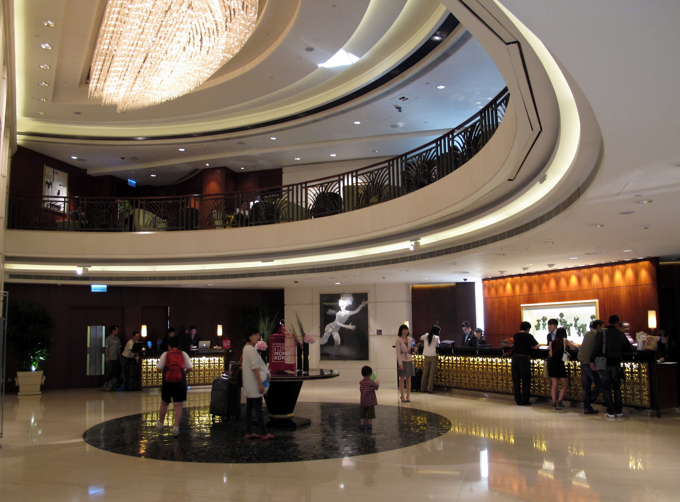 Langham Place Hotel Level 3 Lobby